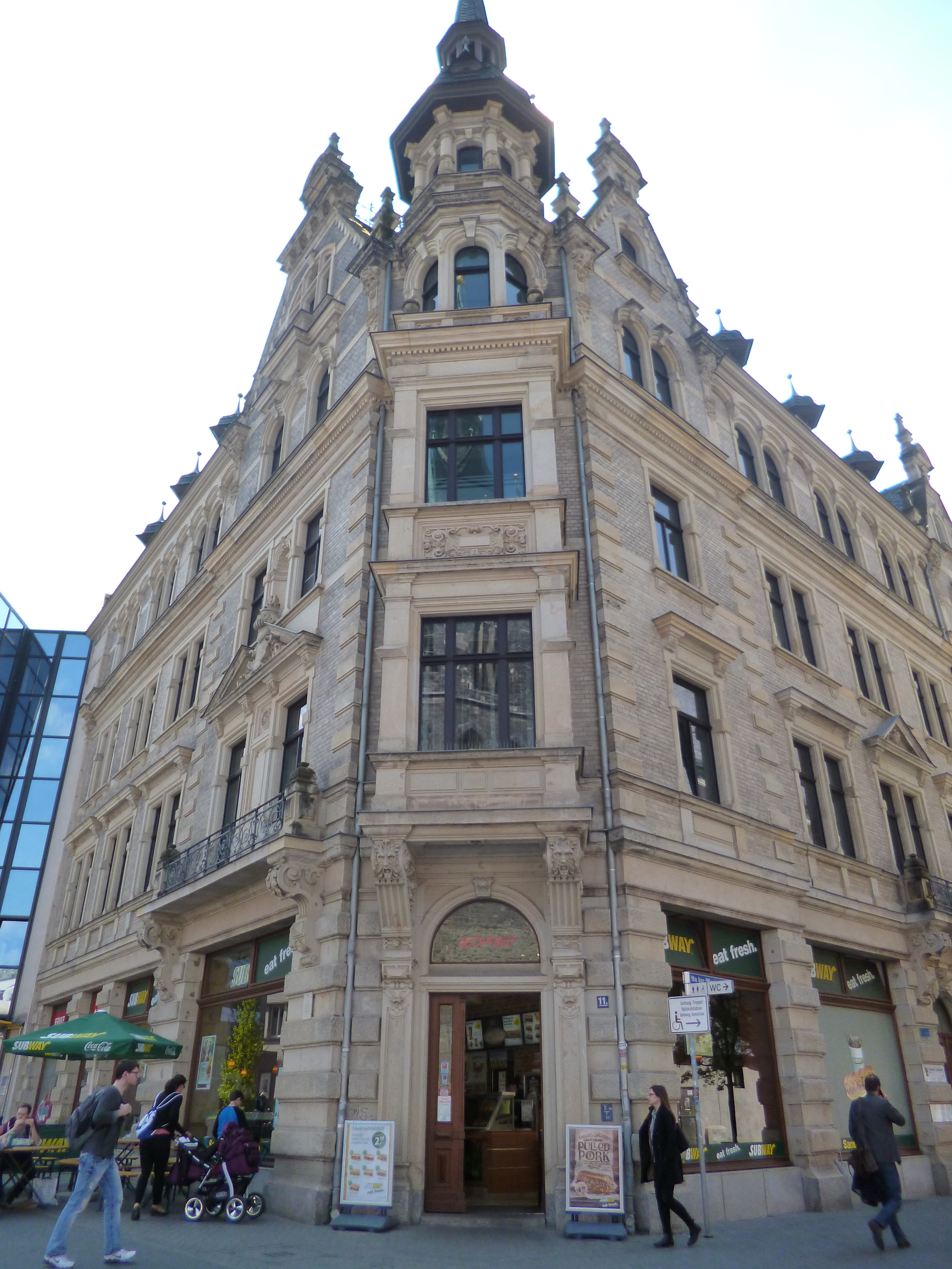 House No. 11, Marktplatz (market square) in Halle (Saale)